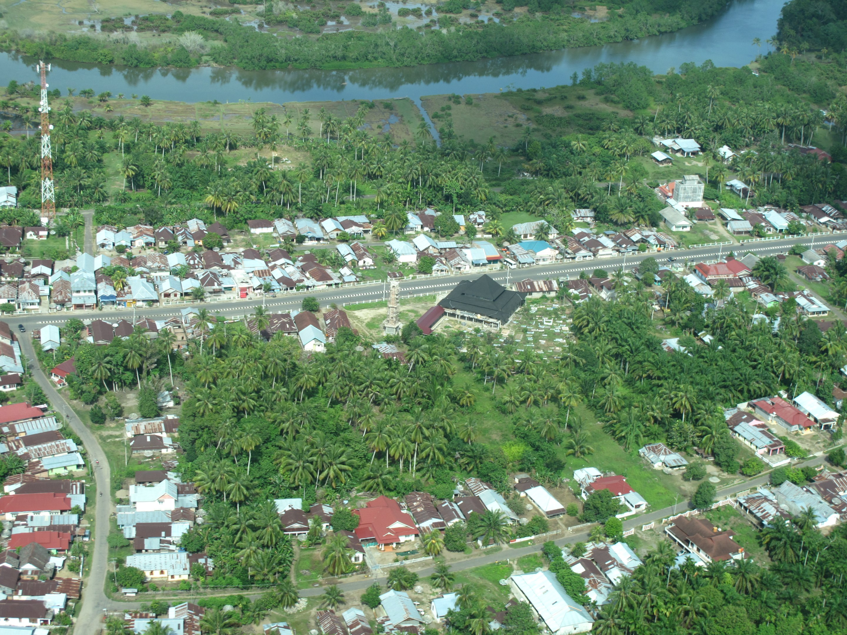 Mukomuko Regency, Bengkulu, Indonesia. 150.000 people live in a the Mukomuko area and there is even a University of Mukomuko now, shortend UNIM.